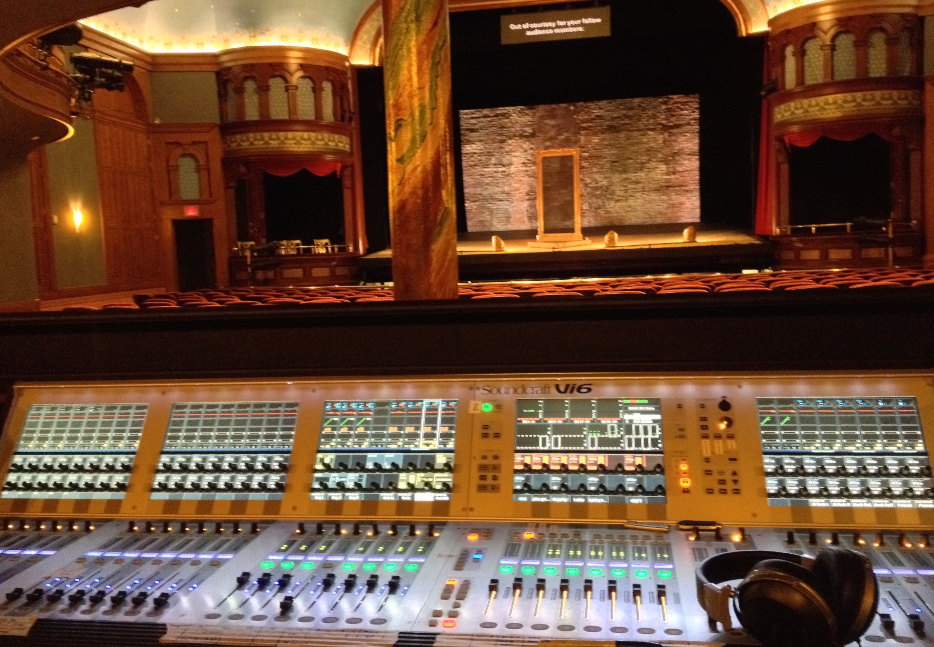 The view from the Front of House Position at the Wheeler Opera House in Aspen, Colorado.